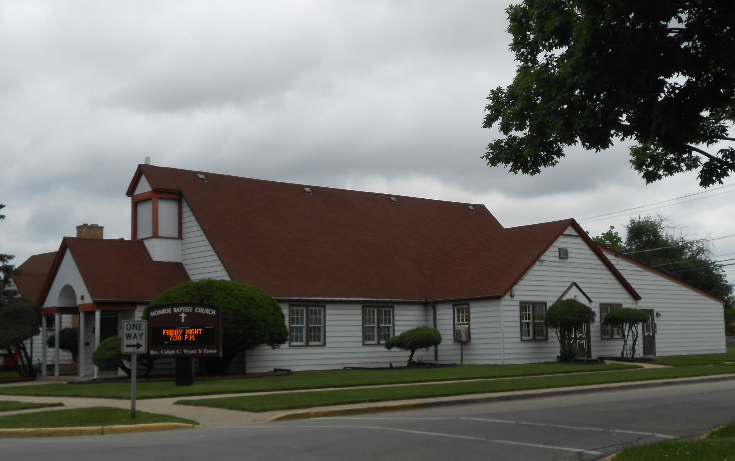 The original building used by Elmhurst Christian Reformed Church in Bellwood, Illinois. It was used from 1949, when it was first organized as a congregation of the Christian Reformed Church in North America, until 1964, when it moved to southern Elmhurst, Illinois. The building is now Monroe Baptist Church.